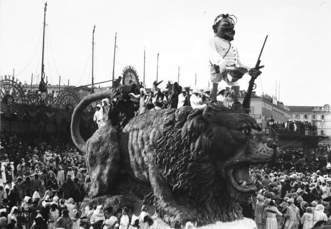 Tartarin de Tarascon in the Carnaval of Niça (1912)